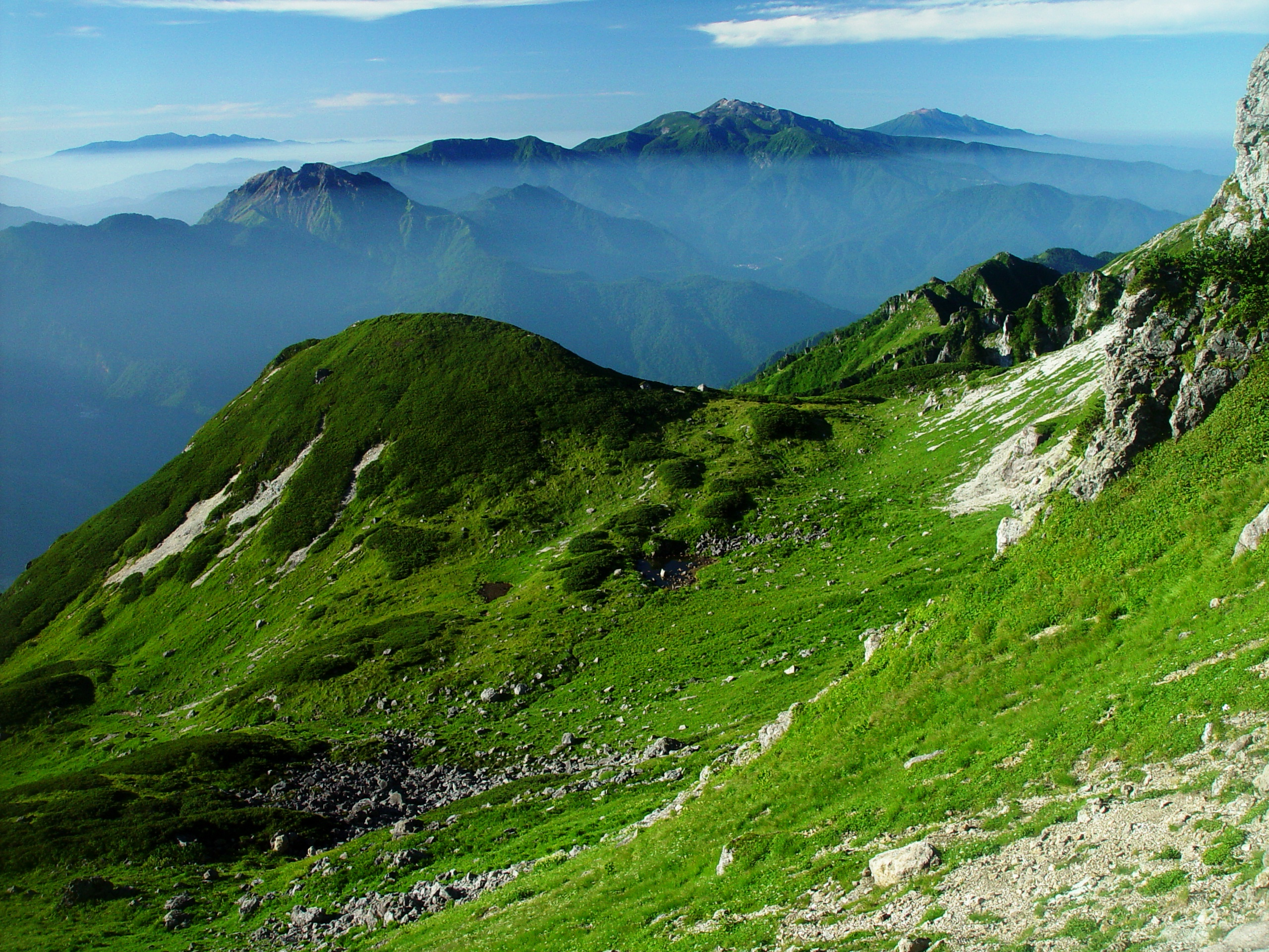 Banryudaira and Midorinokasa of Mount Kasa, in Takayama, Gifu pref., Japan.